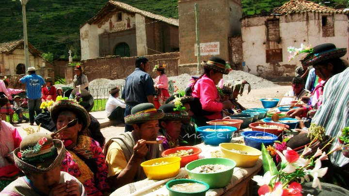 They are made in the carnival Sarhua